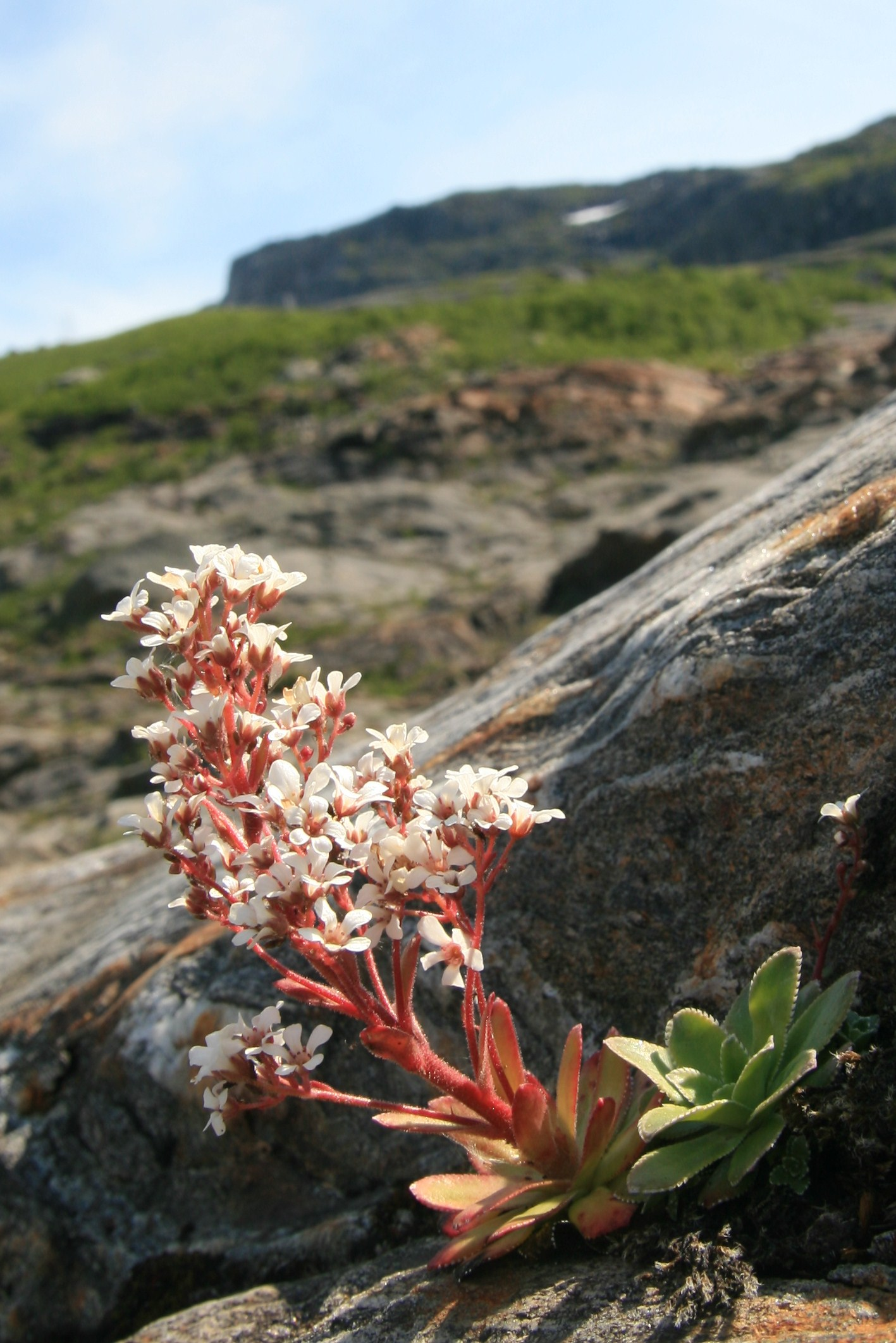 Chondrosea cotyledon